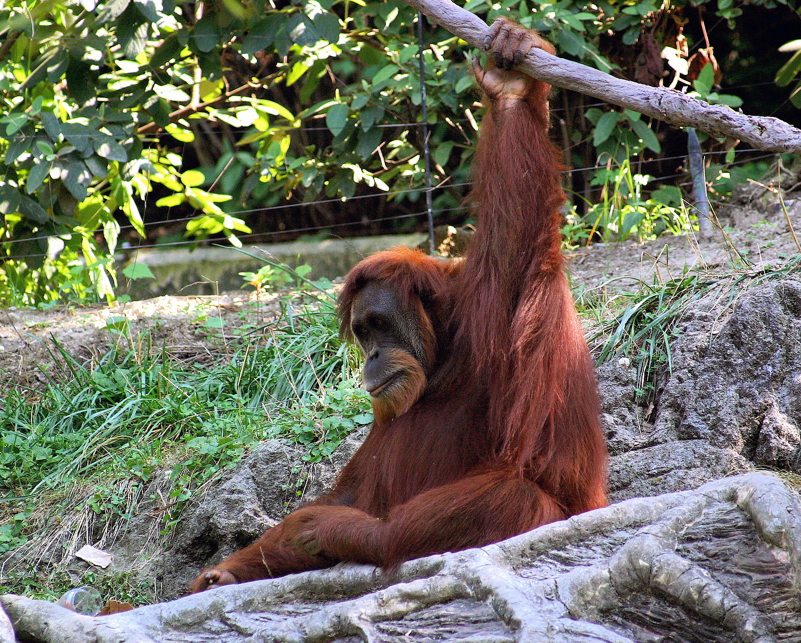 Sumatran Orangutan